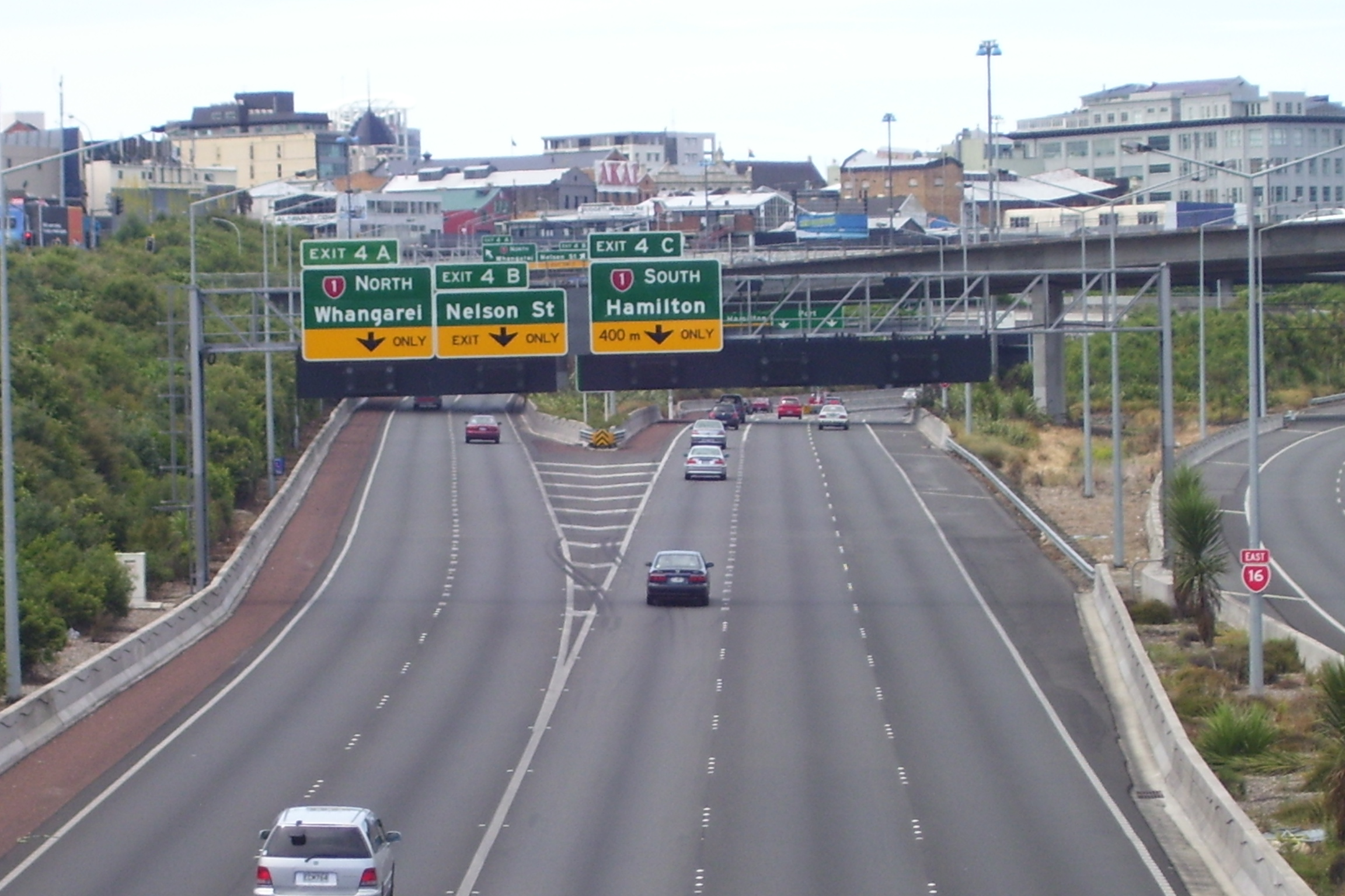 View of the approaches towards the Central Motorway Junction on the Northwestern Motorway, Auckland, New Zealand.